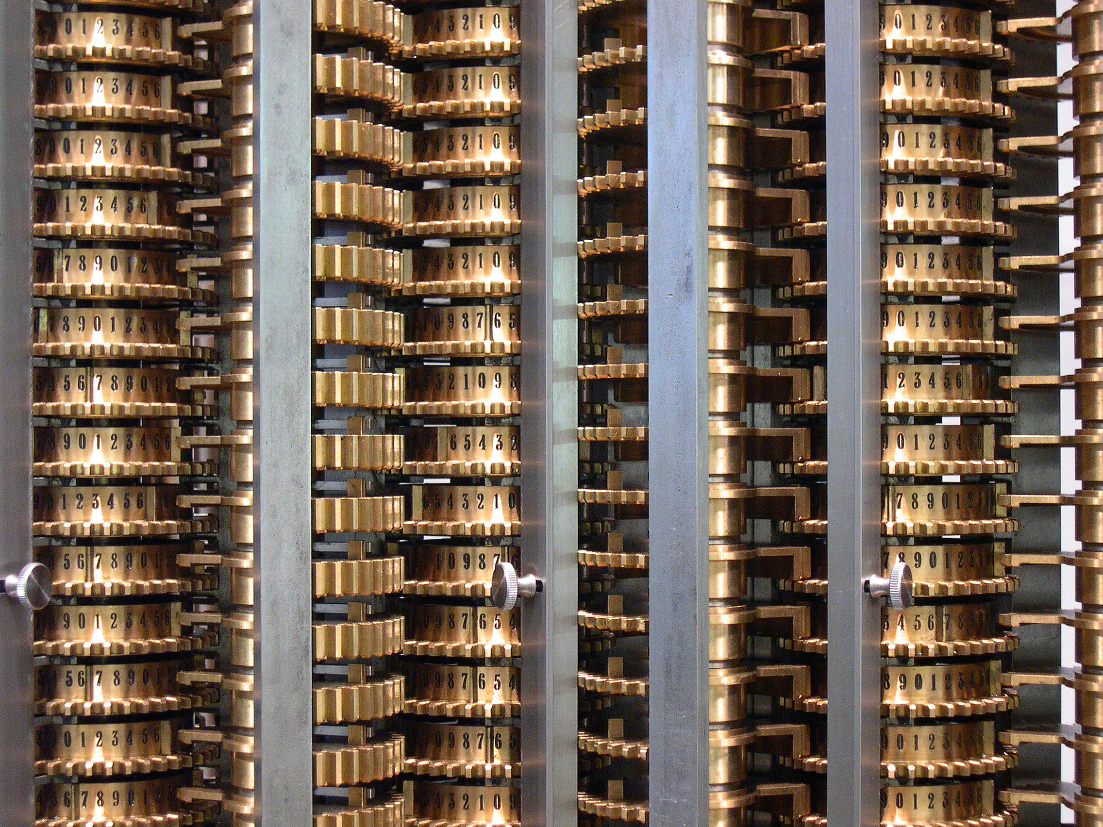 A closeup of the London Science Museum's replica difference engine, built from Babbage's design